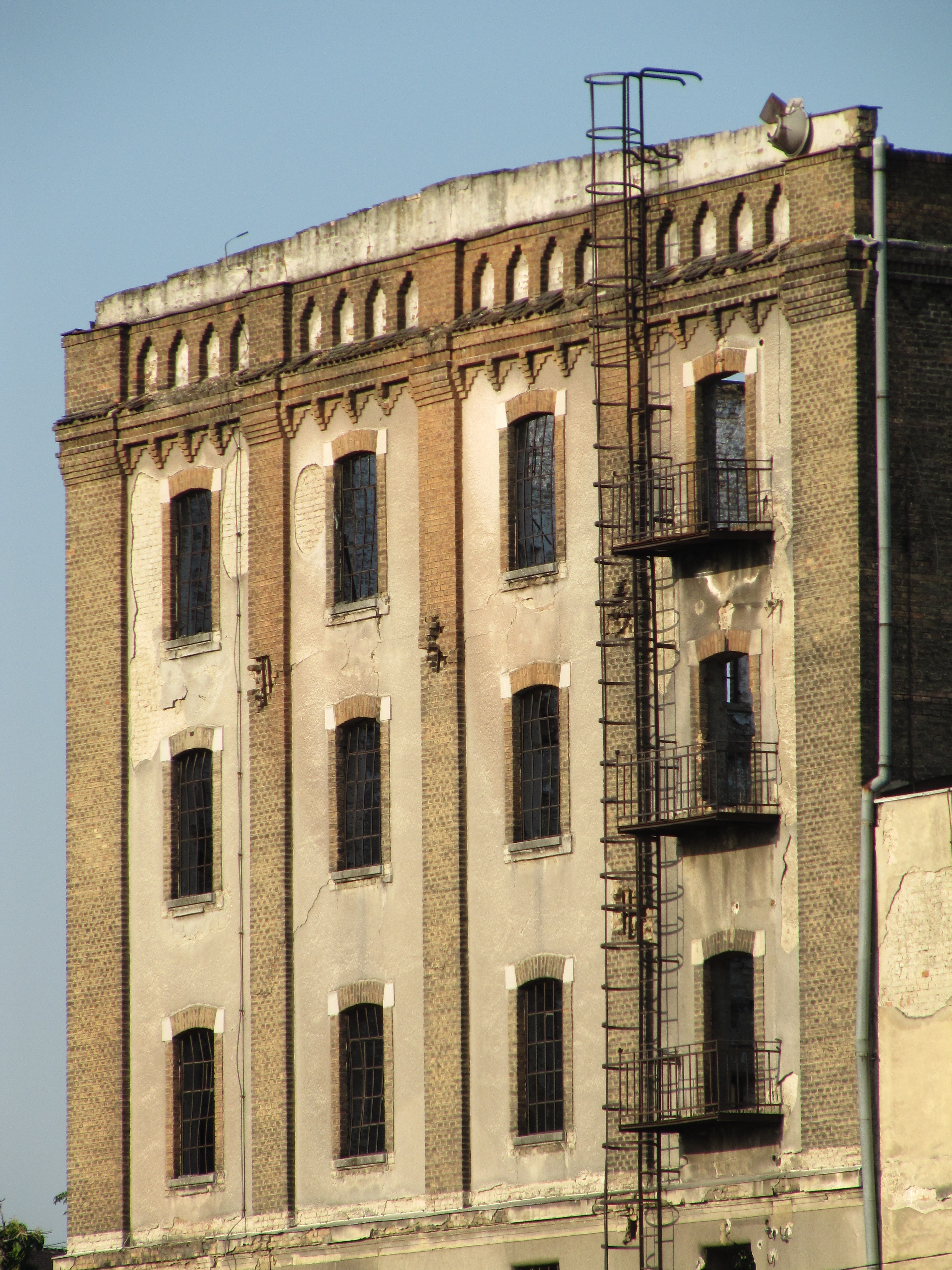 Detail of Paromlin building in Zagreb, Croatia.